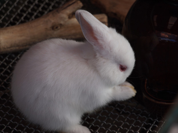 Rabbit - Polish breed - White with Red Eyes - from Japan